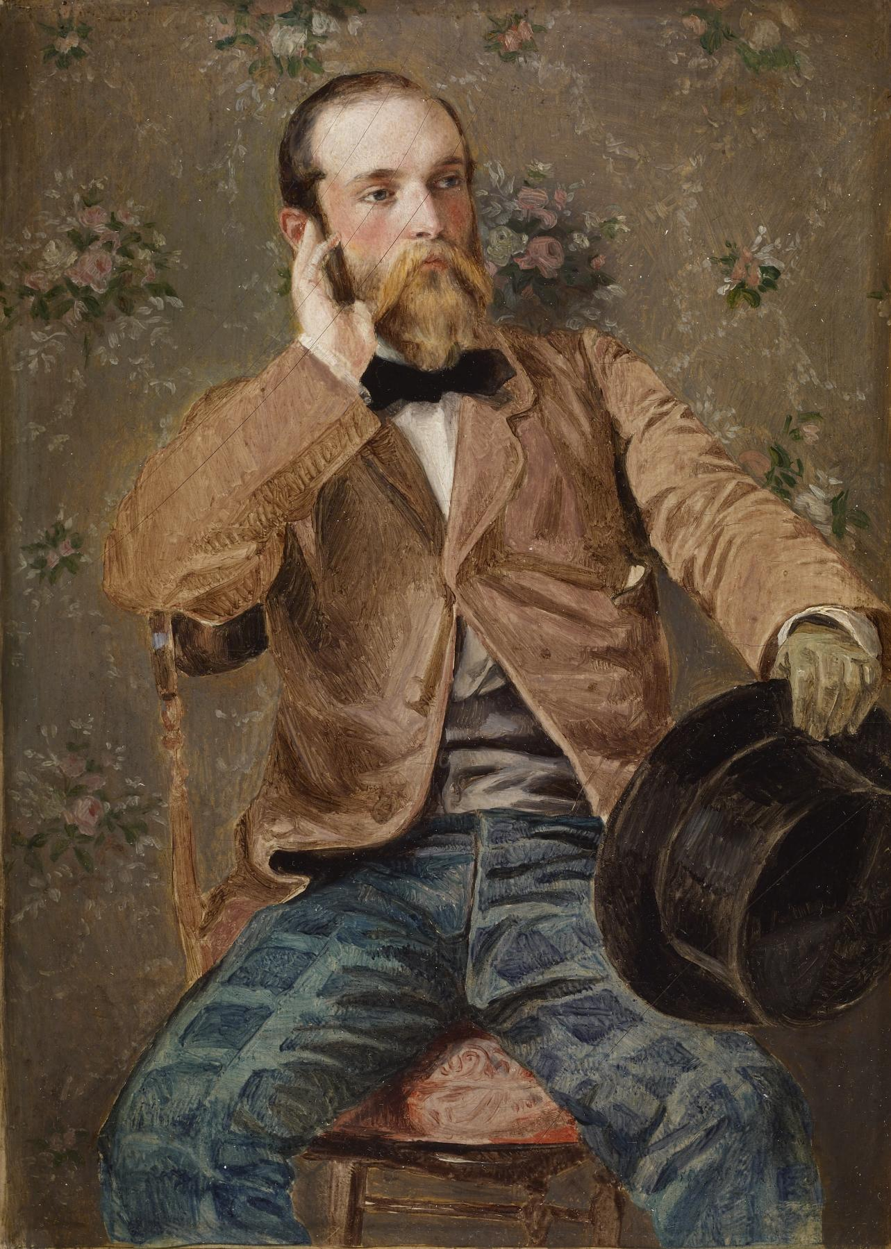 The artist has portrayed himself seated and in street attire. The fact that he is looking away from the viewer rather than gazing forwards as into a mirror suggests that he has copied a photographic image, such as a daguerreotype. In one of his most famous paintings, "War News from Mexico" (now in the National Academy of Design, New York), Woodville includes a model wearing an identical pair of blue-green check trousers.